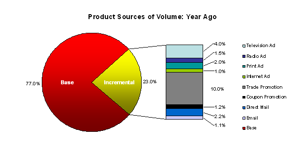 Joy Joseph